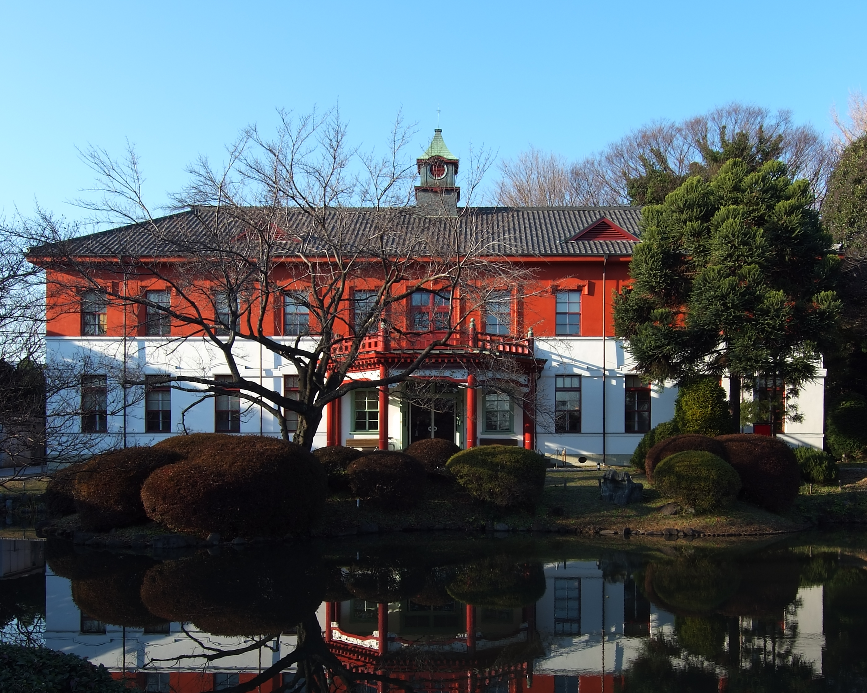 Koishikawa Annex, The University Museum, The University of Tokyo, at Bunkyo Tokyo Japan, built in 1876.